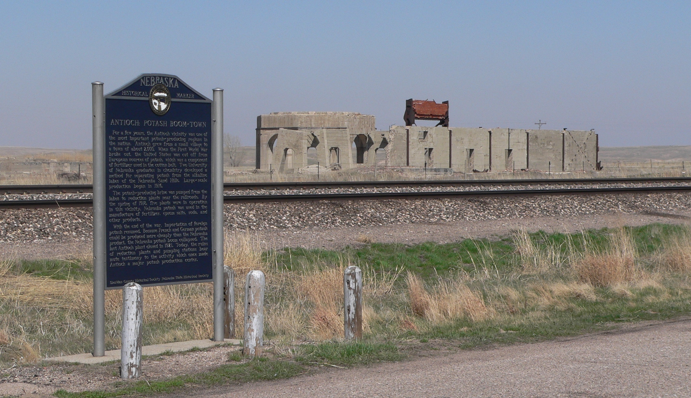 Historical marker on north side of Nebraska Highway 2, at ruins of potash plant near Antioch, Nebraska.